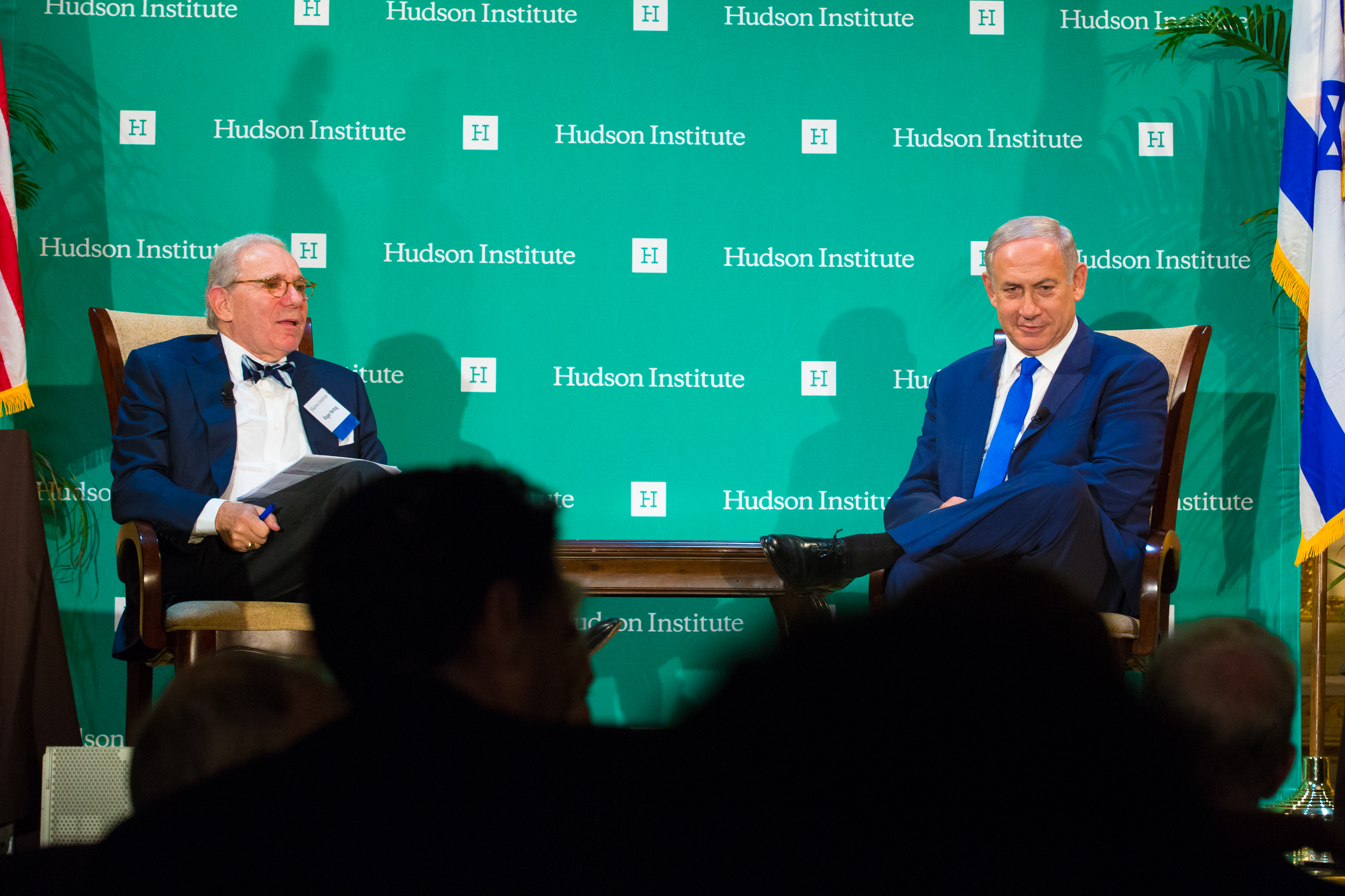 Hudson Institute honored Prime Minister Benjamin Netanyahu of Israel with its 2016 Herman Kahn Award last night, Thursday, September 22. Prime Minister Netanyahu accepted the award during a gala ceremony at Manhattan’s Plaza Hotel, and participated in an extended on-stage conversation about Israel and its future with Roger Hertog, noted philanthropist and chairman of the Tikvah Fund.